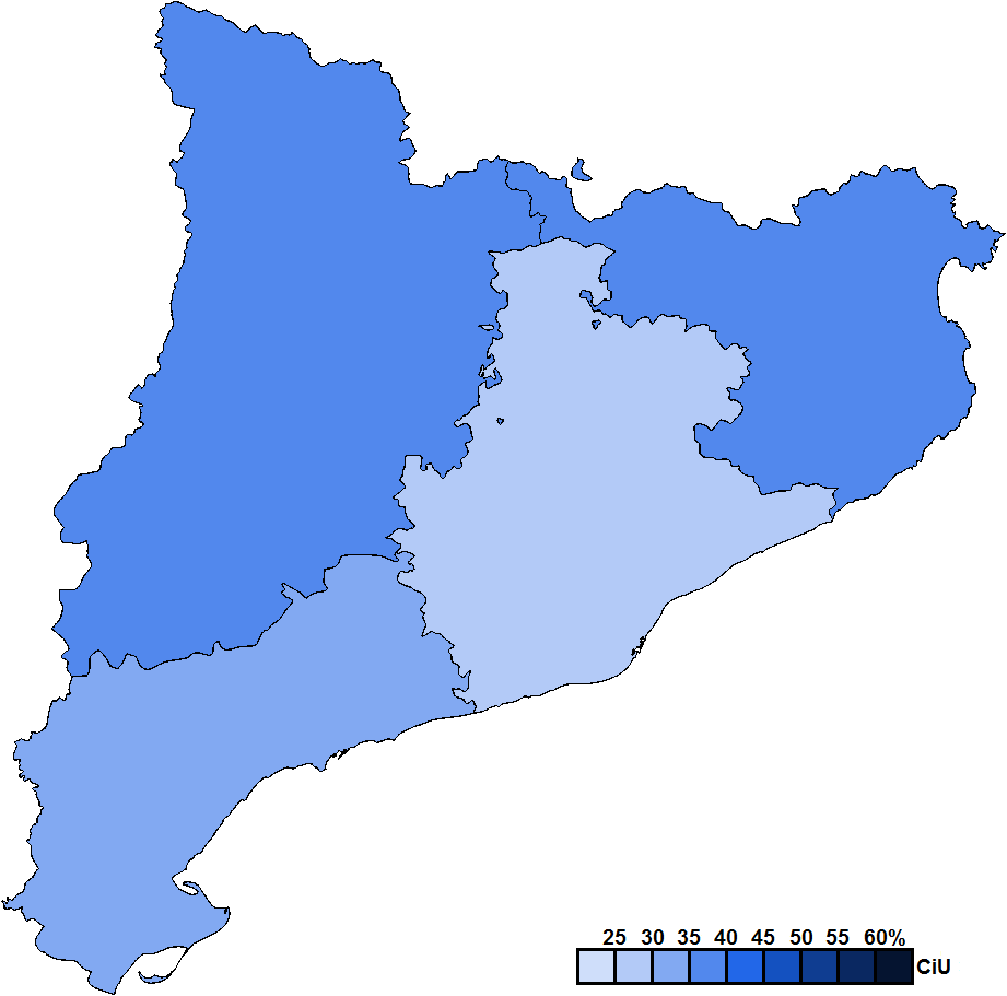 Provincial results for the 2006 Catalan regional election.